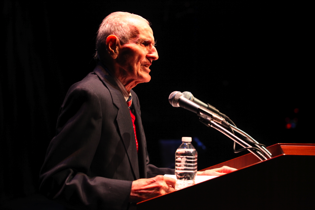 Jack Kevorkian speaking at UCLA.